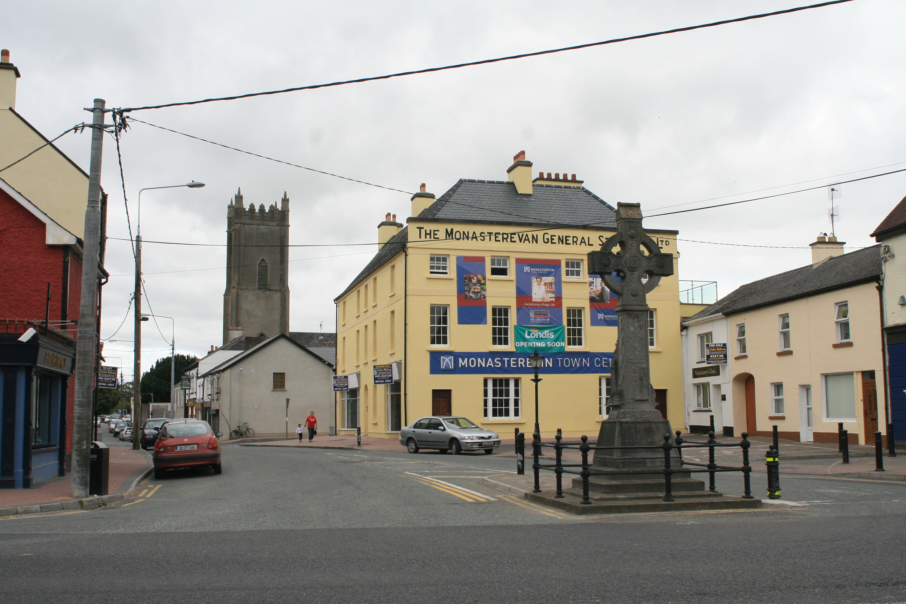 Monasterevin, County Kildare, Ireland Town square of Monasterevin at the N7. The celtic cross in the center of the square is a memorial dedicated to Father Prendergast who was hanged at this square in 1798 for the part he played in the 1798 Rising.